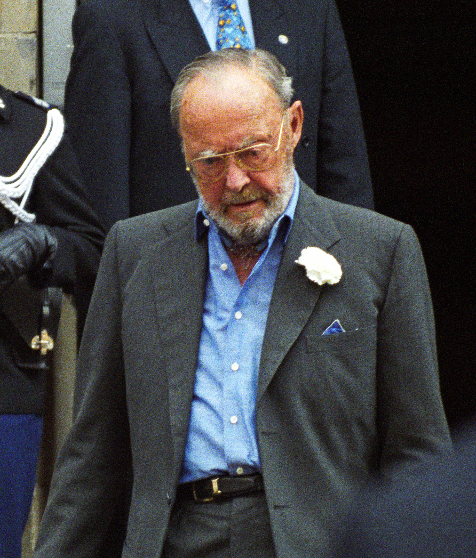 Prince Bernhard of Lippe-Biesterfeld, Amsterdam